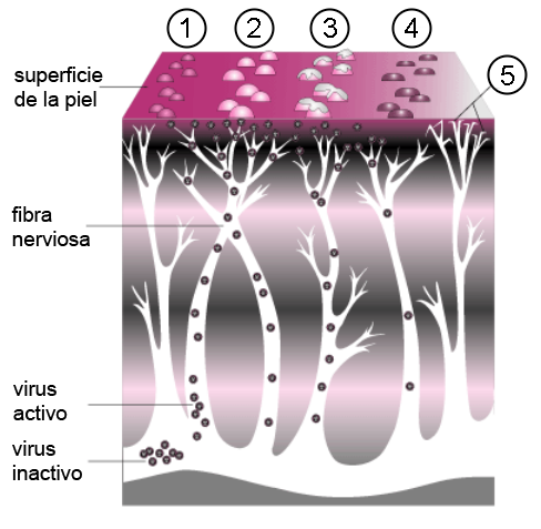 Progression of shingles. A cluster of small bumps (1) turns into blisters (2) that resemble chickenpox lesions. The blisters fill with pus, break open (3), crust over (4), and finally disappear. This process takes four to five weeks. A painful condition called post-herpetic neuralgia can sometimes occur. This condition is thought to be caused by damage to the nerves (5), and can last from weeks to years after the rash disappears.